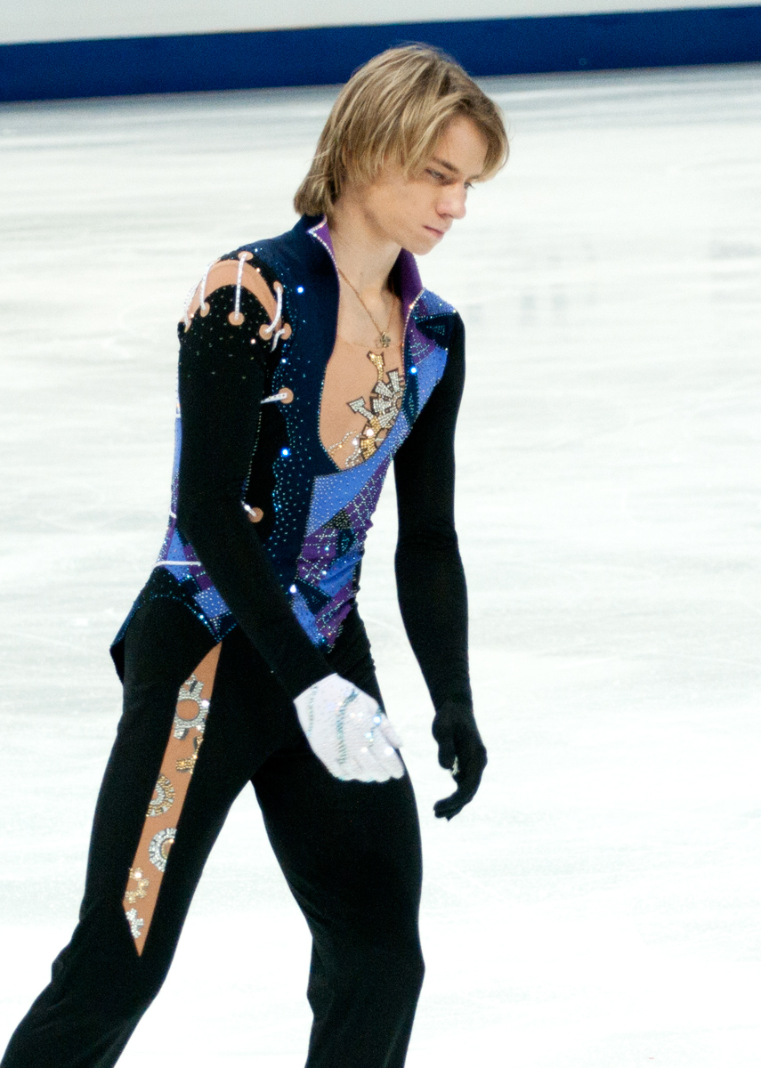 2011 World Figure Skating Championships, free skating.